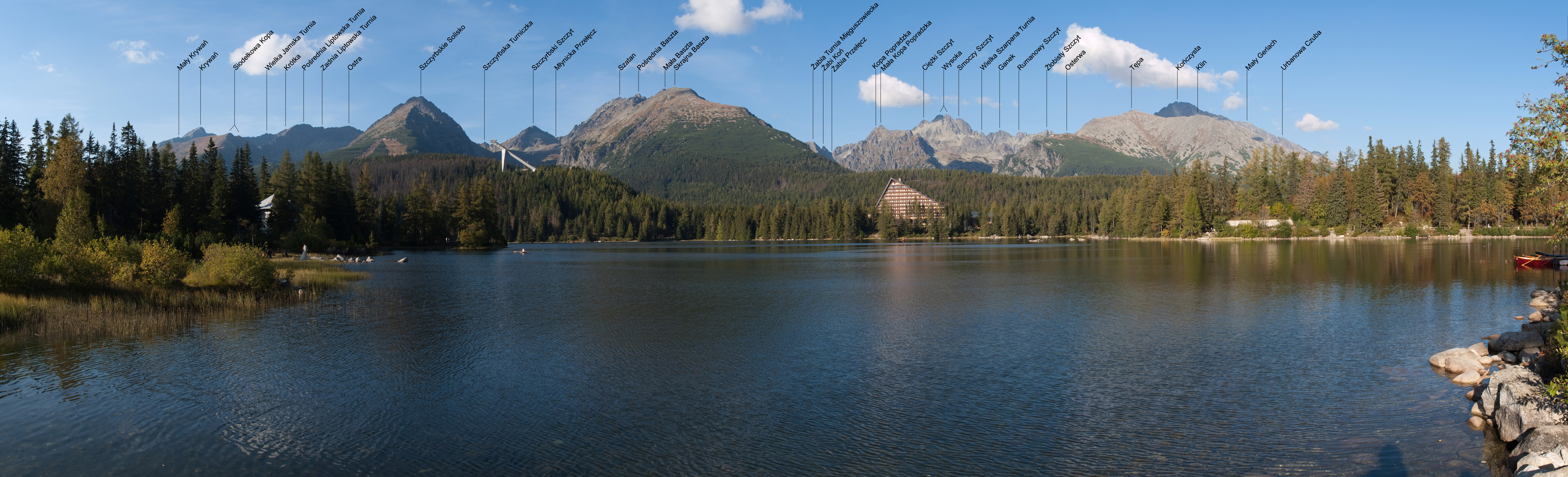 A ~137 degree panorama from the shore of Štrbské pleso (Polish captions).